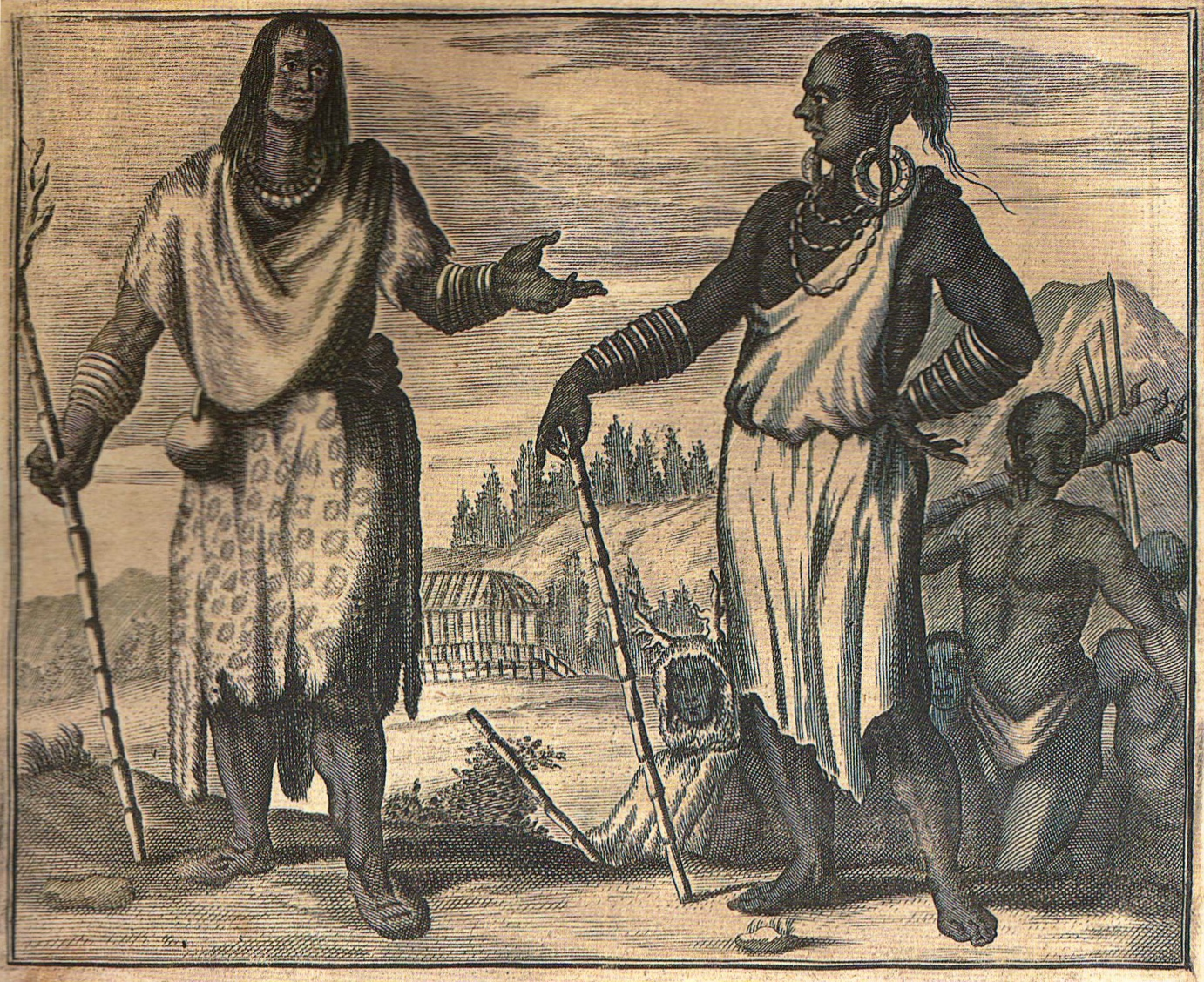 Inhabitants of Dutch Formosa